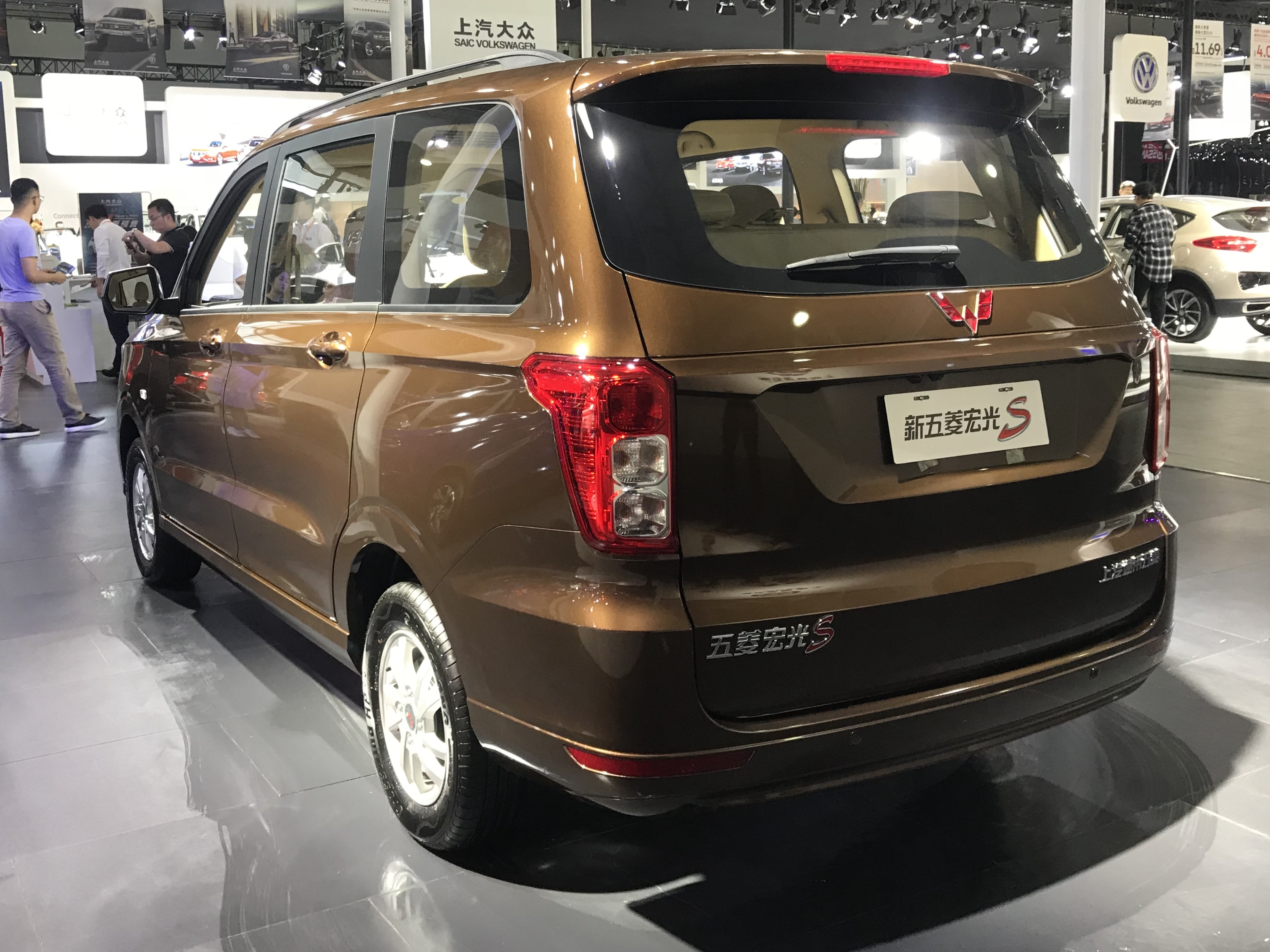 Wuling Hongguang S (Second Generation) rear